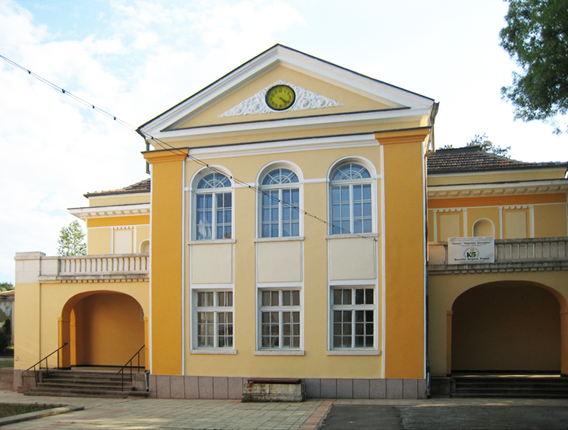 Renovated Spa center, Varshets, Bulgaria